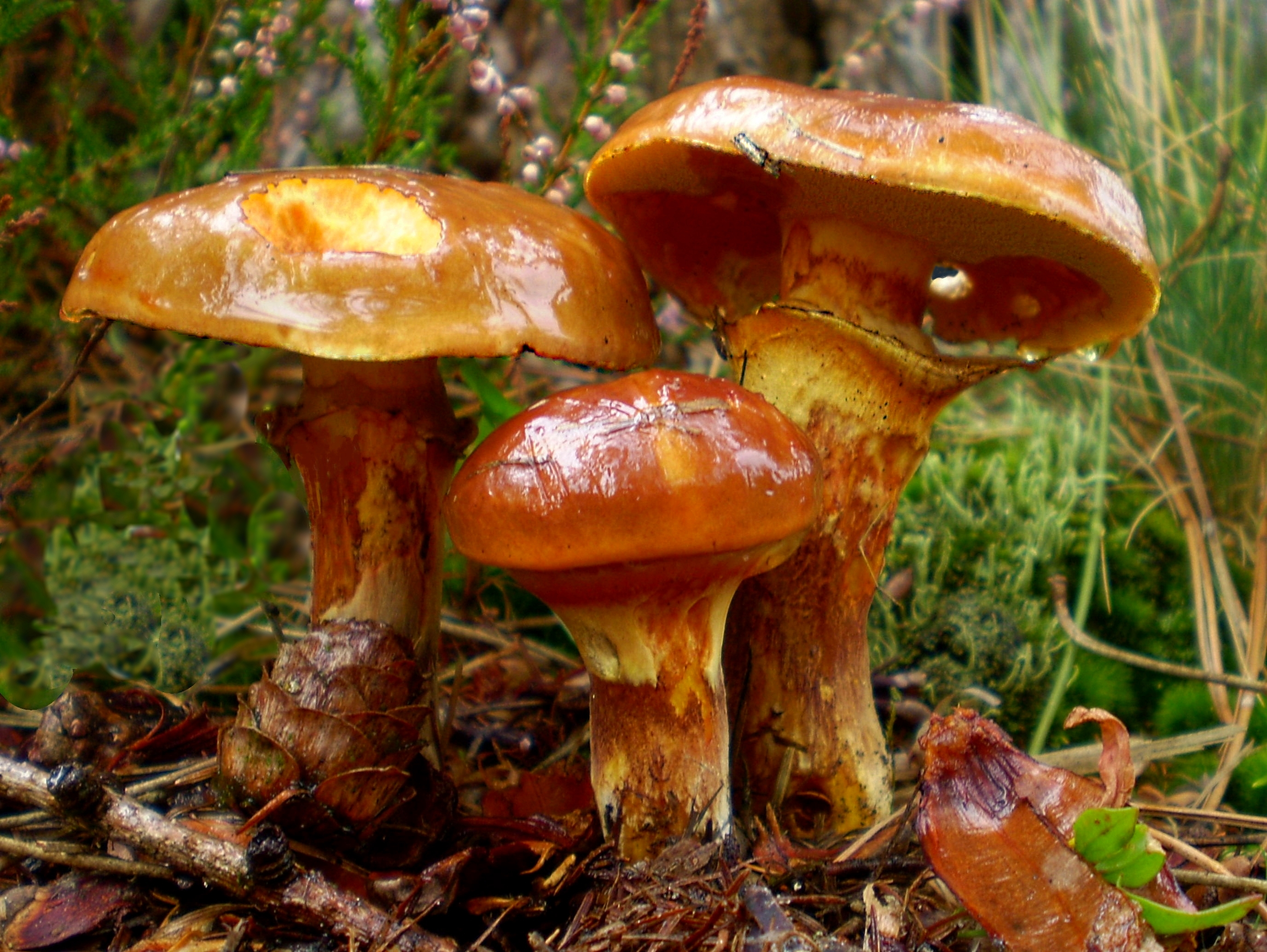 This digital image is the work of photographer Zonda Grattus, aka User:luridiformis. He is the sole owner and copyright holder of this image, and he agrees to publish it under the Own Work, Creative Commons Attribution 3.0 License.